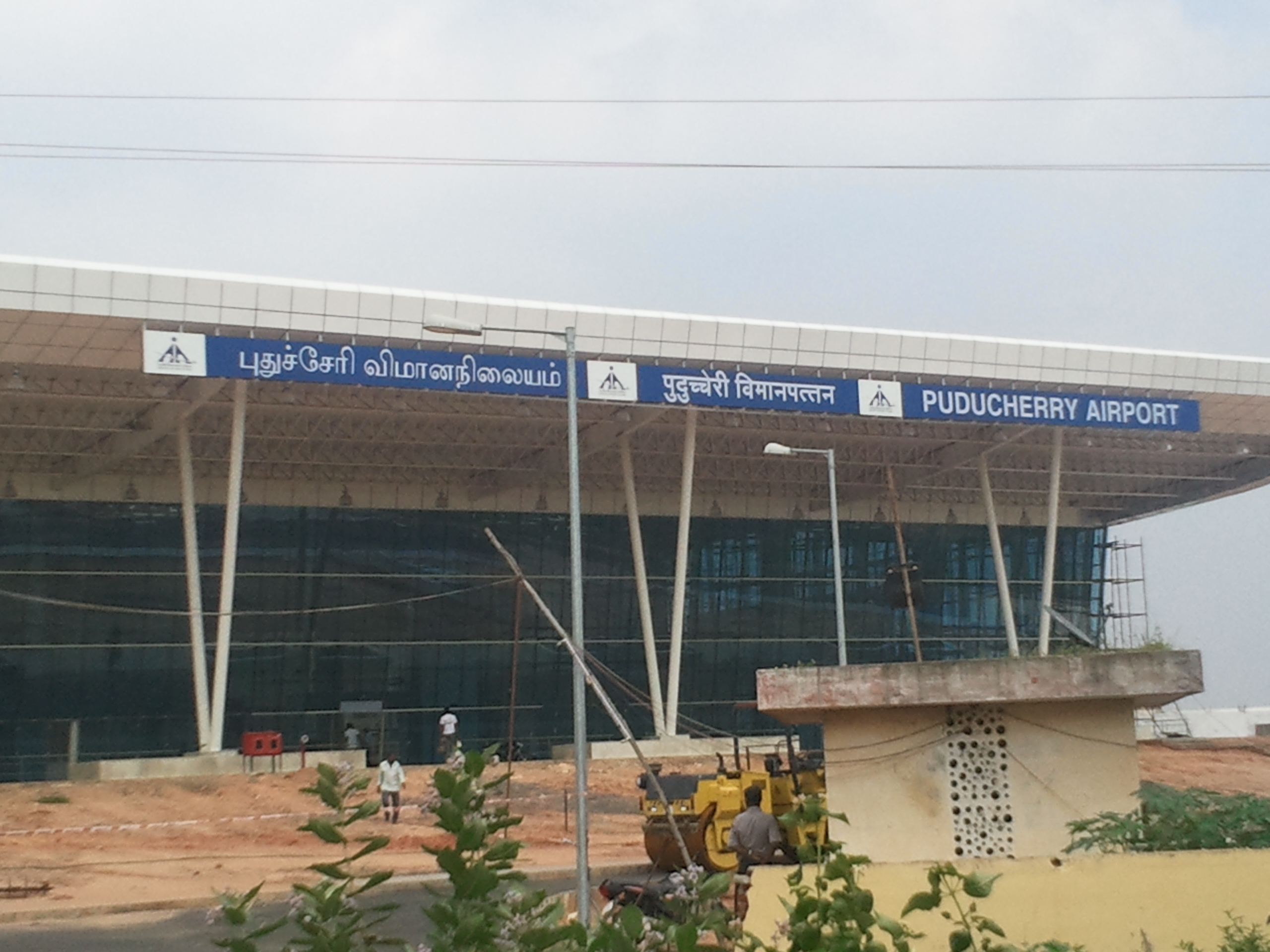 Holds the information regarding to the Puducherry (Pondicherry) Airport. Photo was shot by Dr. K. Kokula Krishna Hari